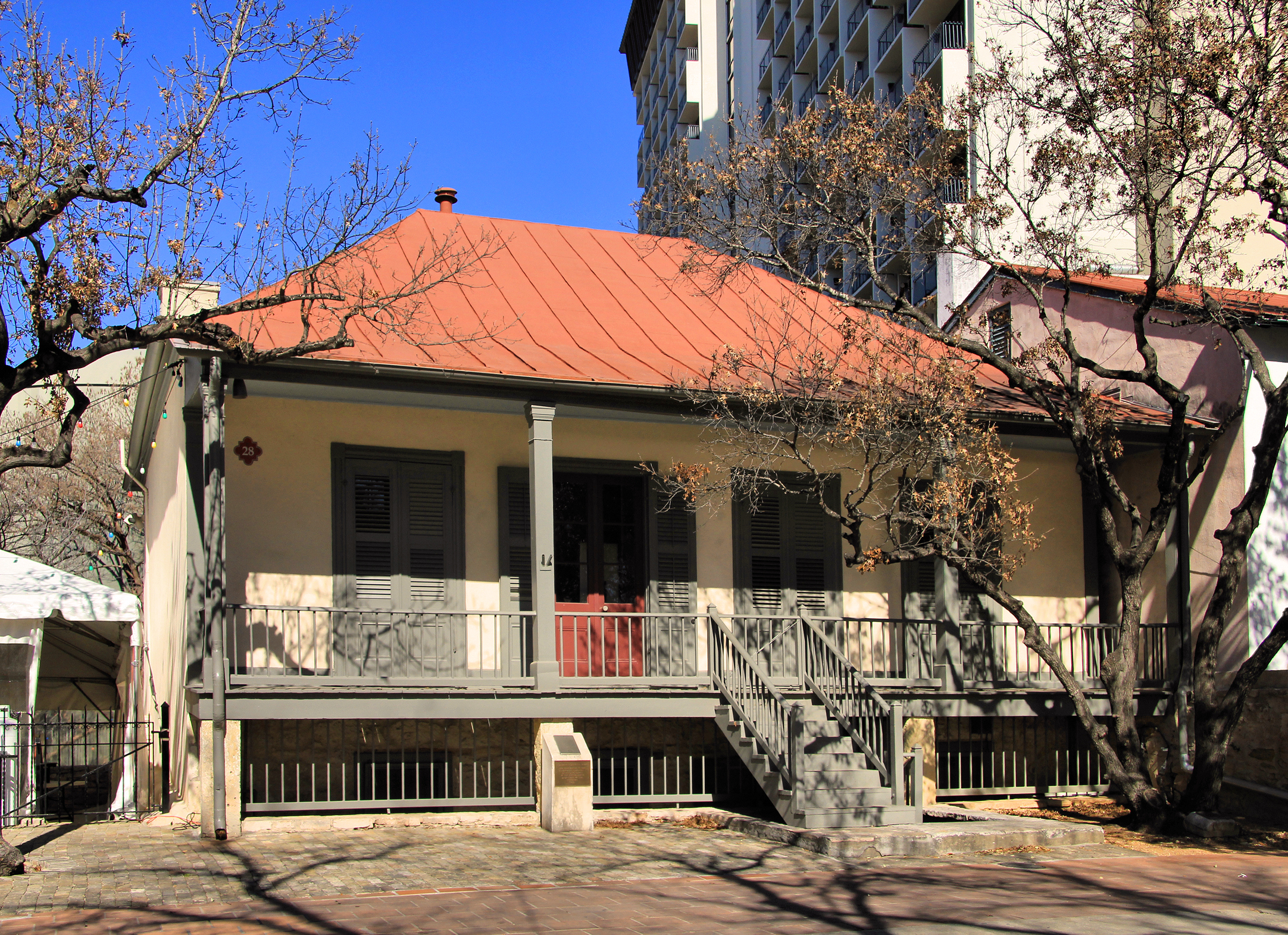 The Jeremiah Dashiell House also know as Casa Villita in San Antonio, Texas, United States. The house was designated a Recorded Texas Historic Landmark in 1962 and is a contributing property to the La Villita Historic District.